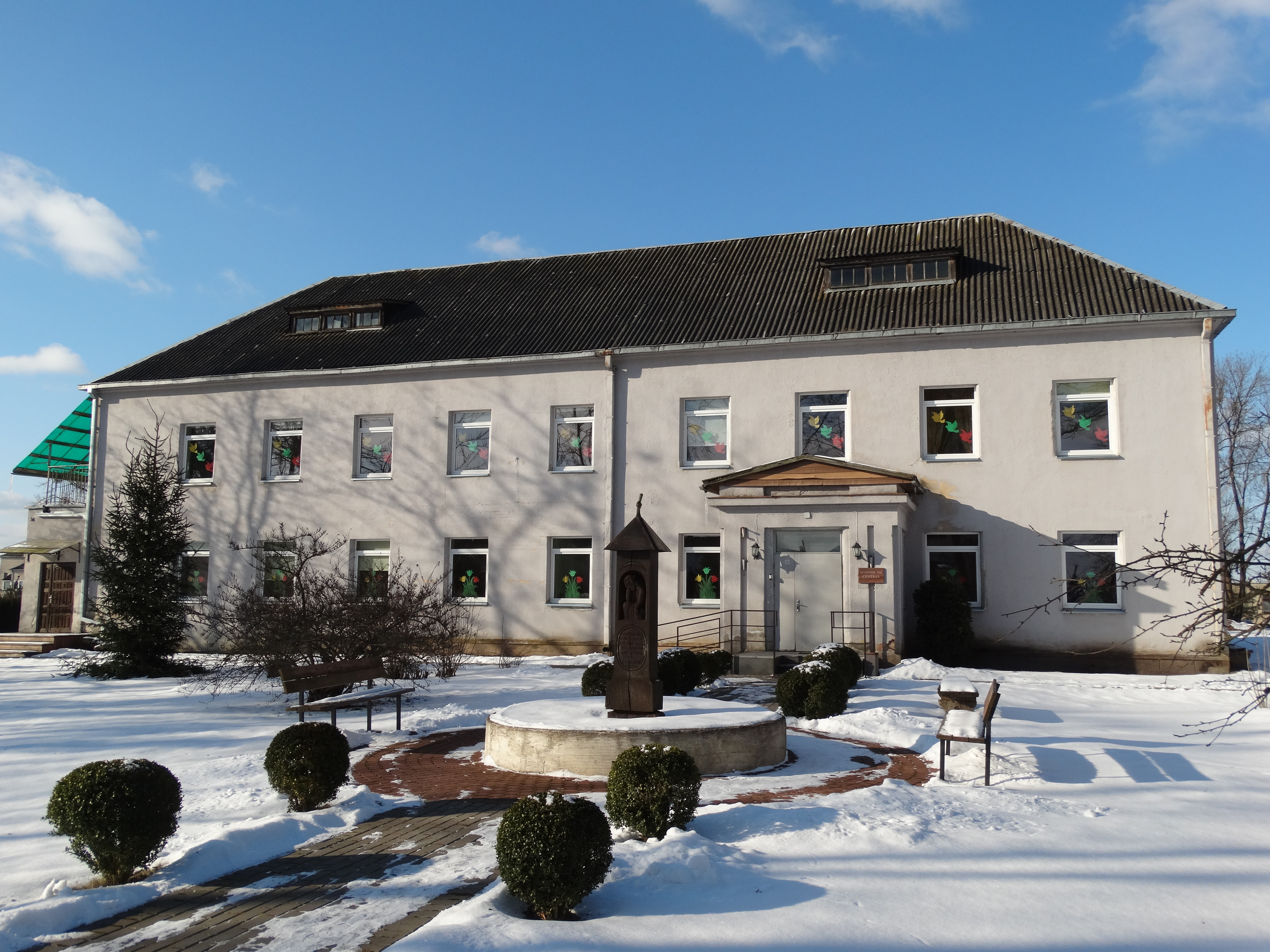 Veiveriai, Prienai district, Lithuania